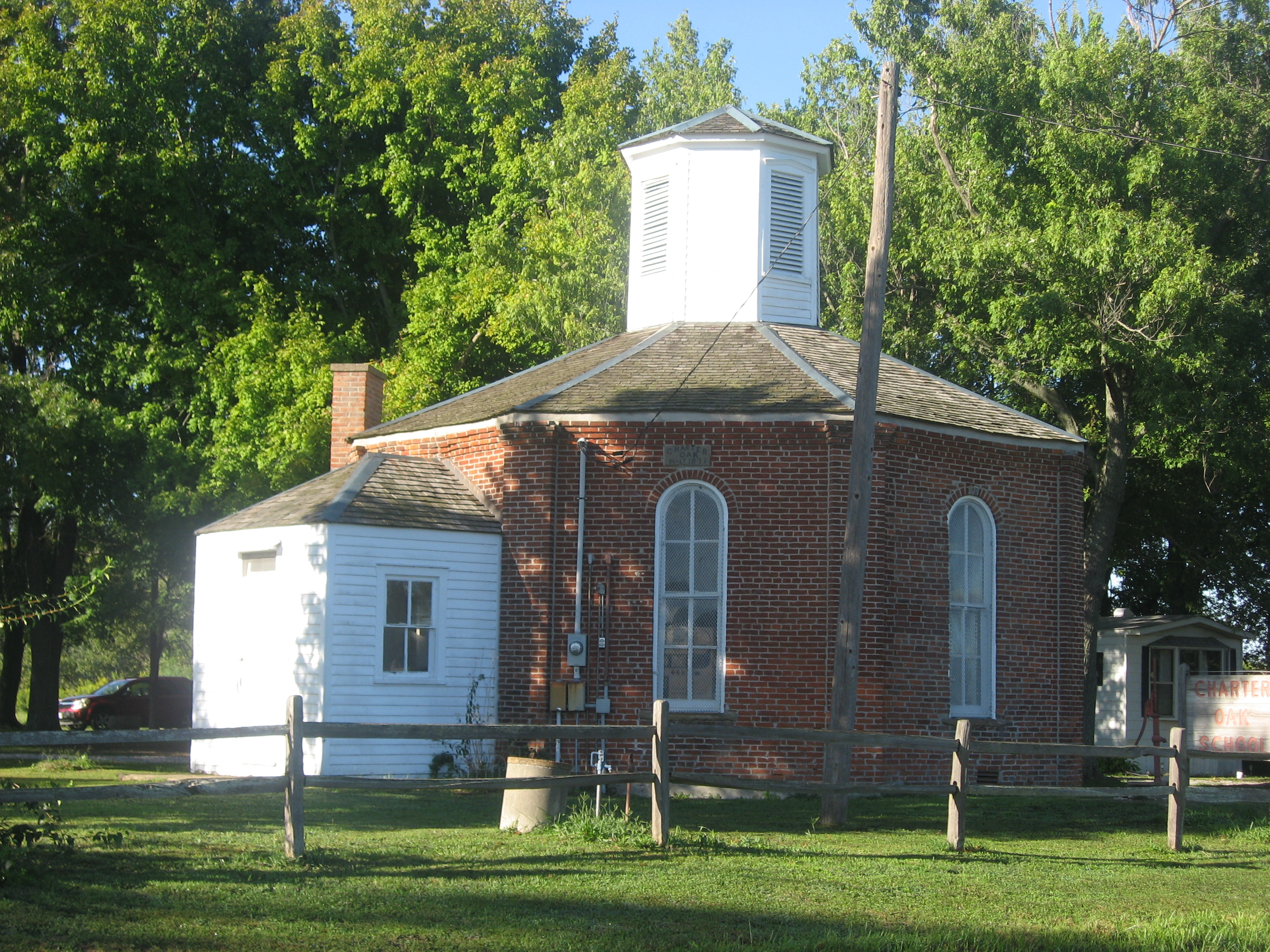 Front of the Charter Oak Schoolhouse, located on the southern side of County Road 4 (Schuline Road) west of Schuline in Central Precinct, Randolph County, Illinois, United States. Built in 1873, it is listed on the National Register of Historic Places.